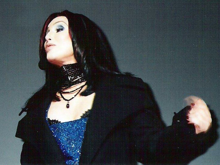 Cher performing at the WKTU-FM's Miracle on 34th Street show, at the time of her huge comeback hit Believe. This is my best shot of her.